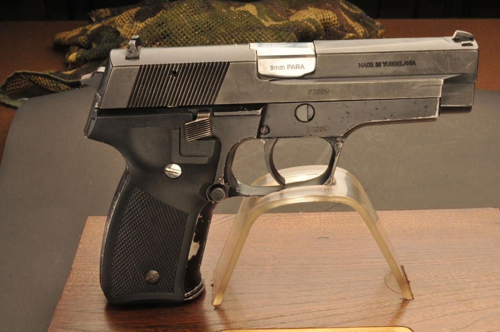 Crvena Zastava 99